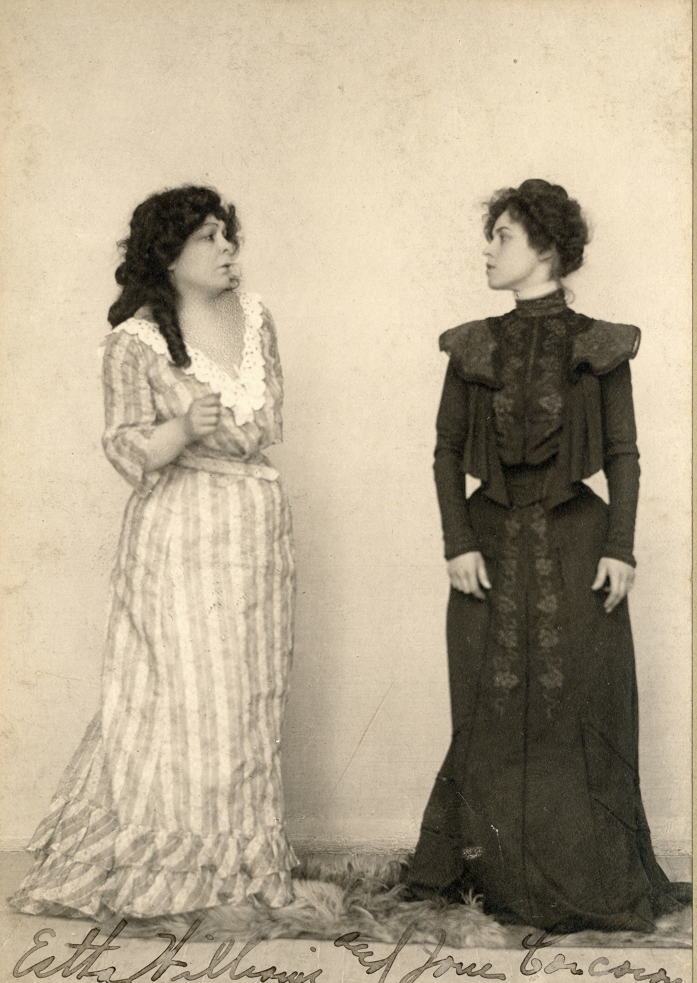 Estha Williams and Jane Corcoran in "At the Old Crossroads". Dated June 1911. Inscription. Subjects: plays, actresses